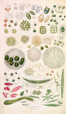 PIcture by Peter Boyd